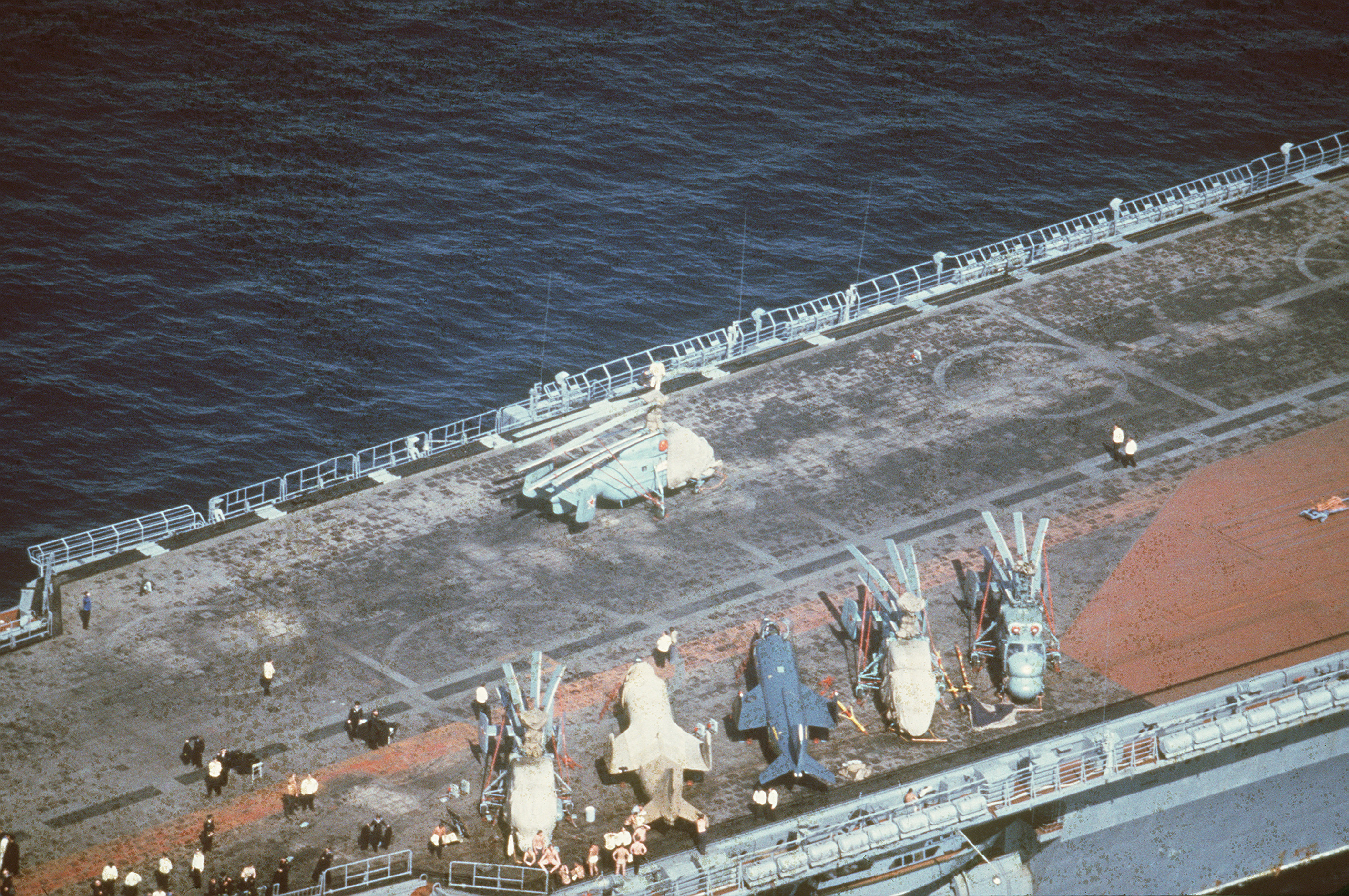 A view of Ka-25 Hormone helicopters and Yak-36 Forger aircraft parked on the flight deck of the Soviet aircraft carrier MINSK (CVHG).